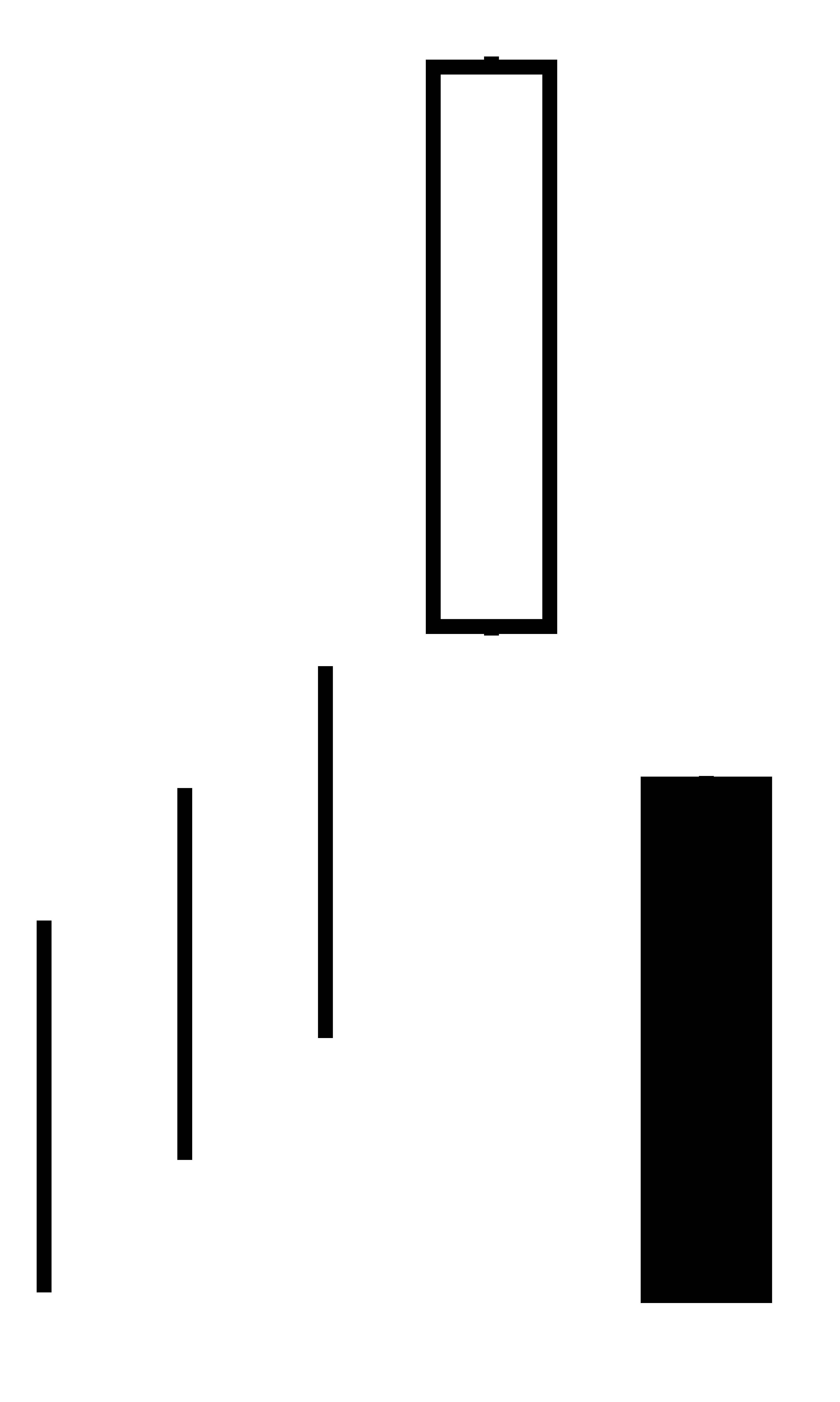 Bearish Kicking